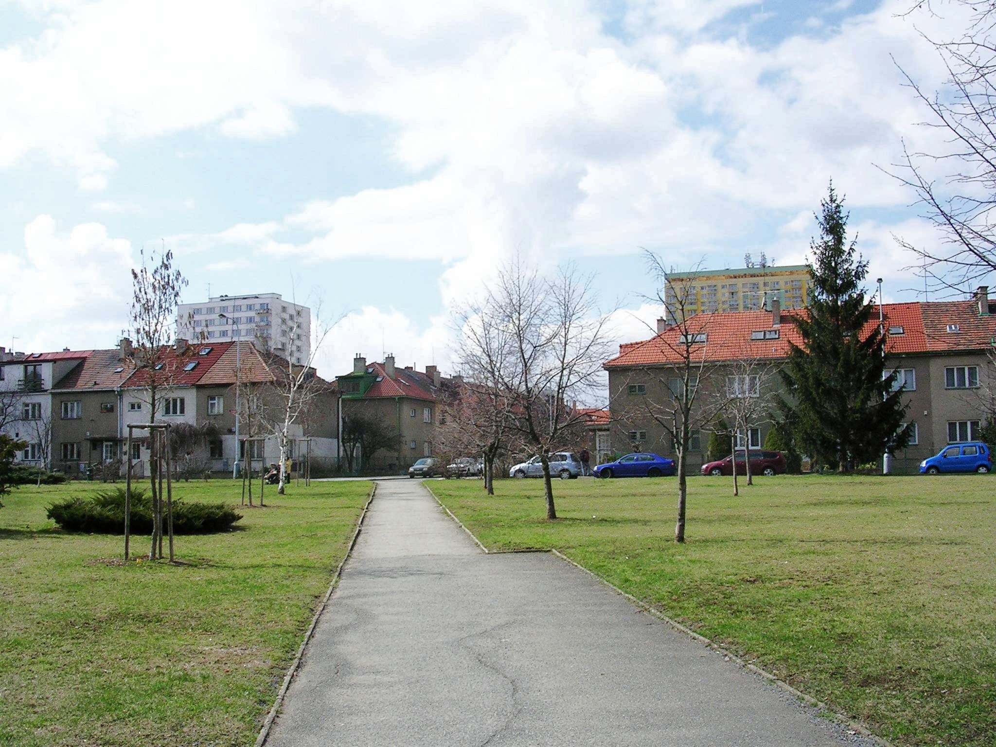 Záběhlice, Prague, the Czech Republic. Zahradní Město.